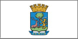 Flag of Zemun Municipality, since April 2009. Border.